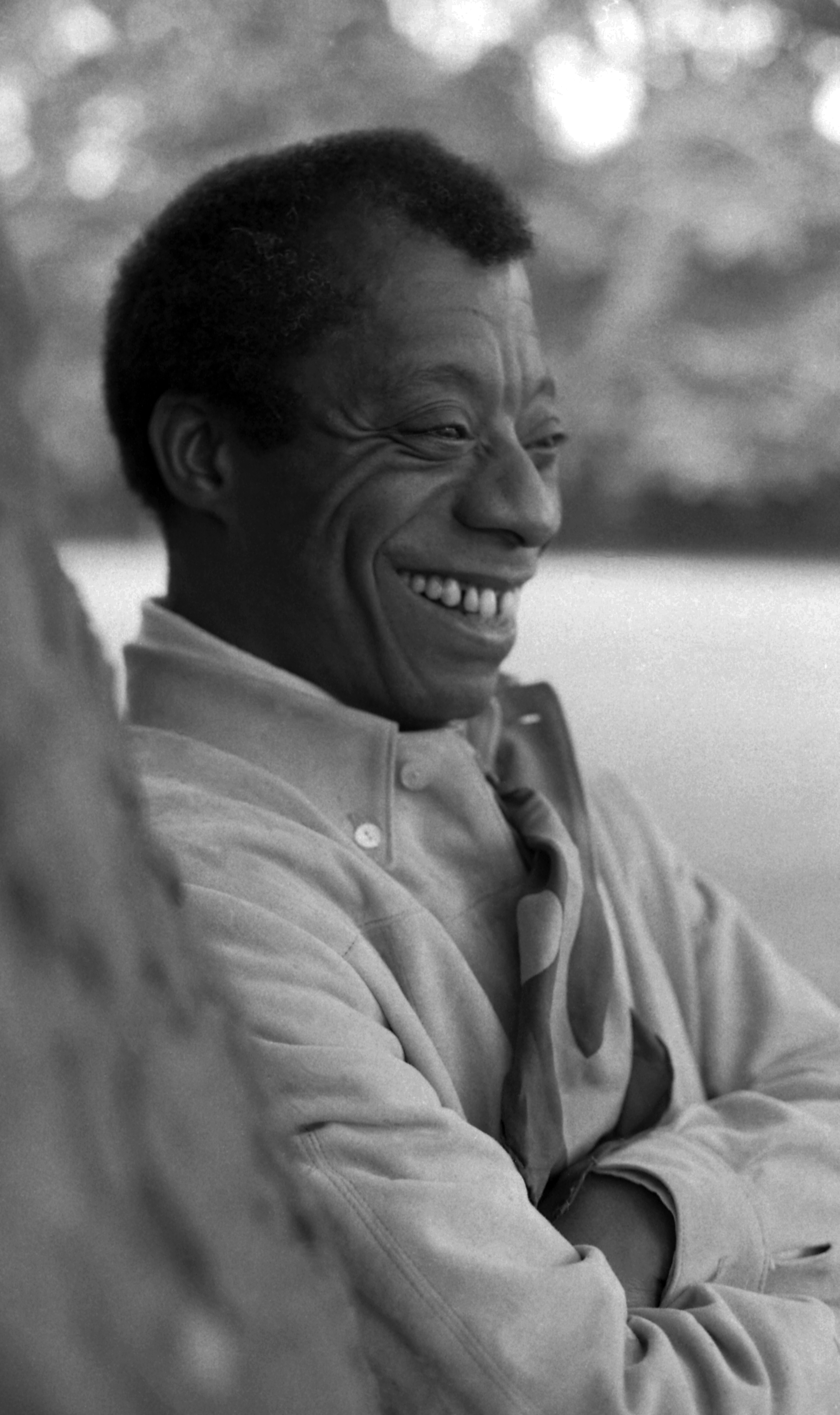 James Baldwin taken in Hyde Park London